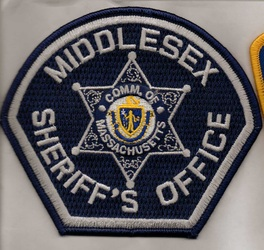 Patch of the Middlesex County Sheriff's Office.